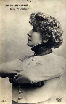 Postcard portrait of Sarah Bernhardt (1844 – March 26, 1923) in the title role of L'Aiglon. Costume by fashion designer Jacques Doucet.